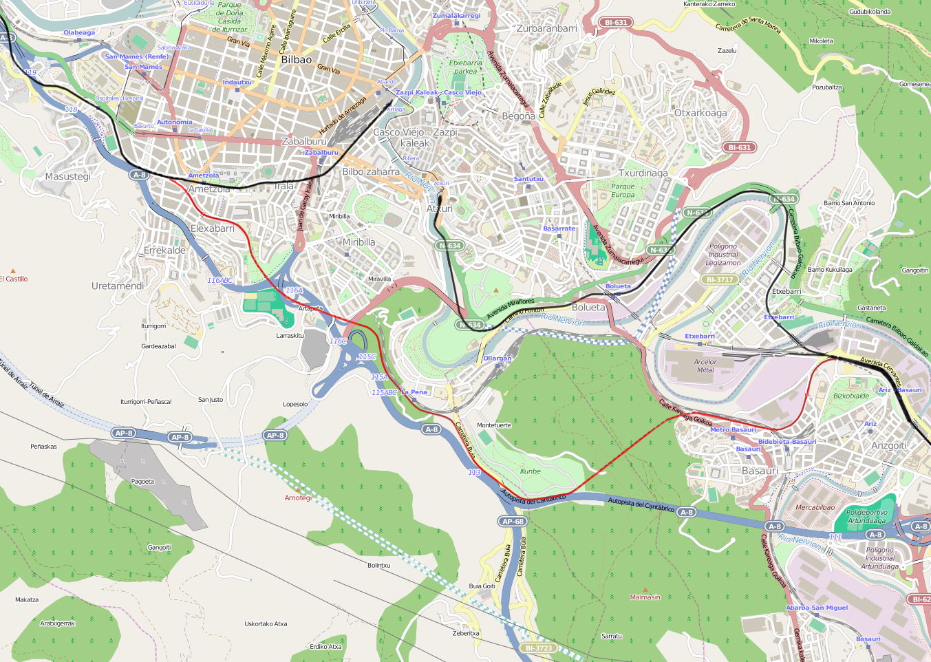 Rail connection between the FEVE and EuskoTren metergauge networks on the openstreetmap extract in Bilbao. The connection is in red. Black for metergauge.